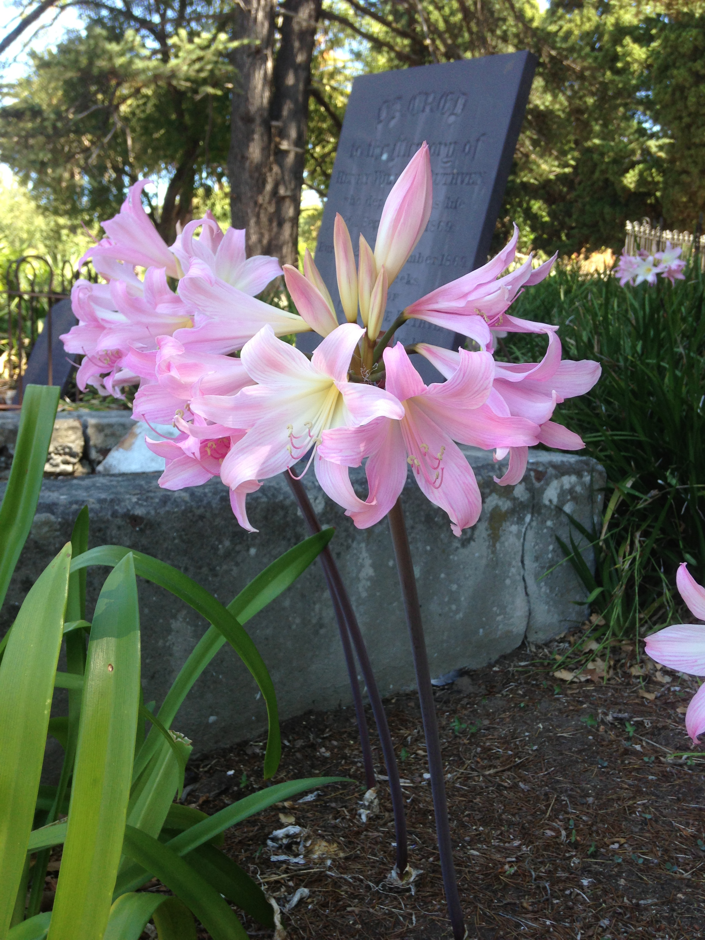 Amaryllis belladonna (March lillies) blooming in March in Rondebosch, Cape Town, South Africa.